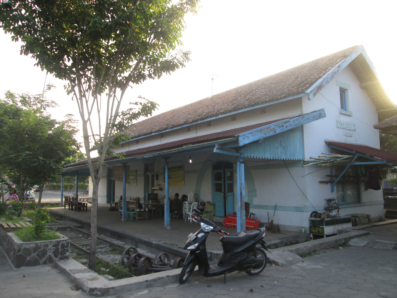 The building of Ngabean station. This building is now used for Ngabean Area Communication Forum secretariat.